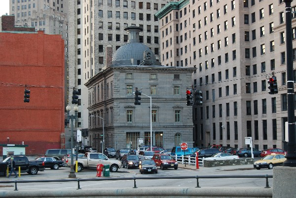 U.S. Customhouse, Providence, Rhode Island (Historic). This view is the rear of the building.